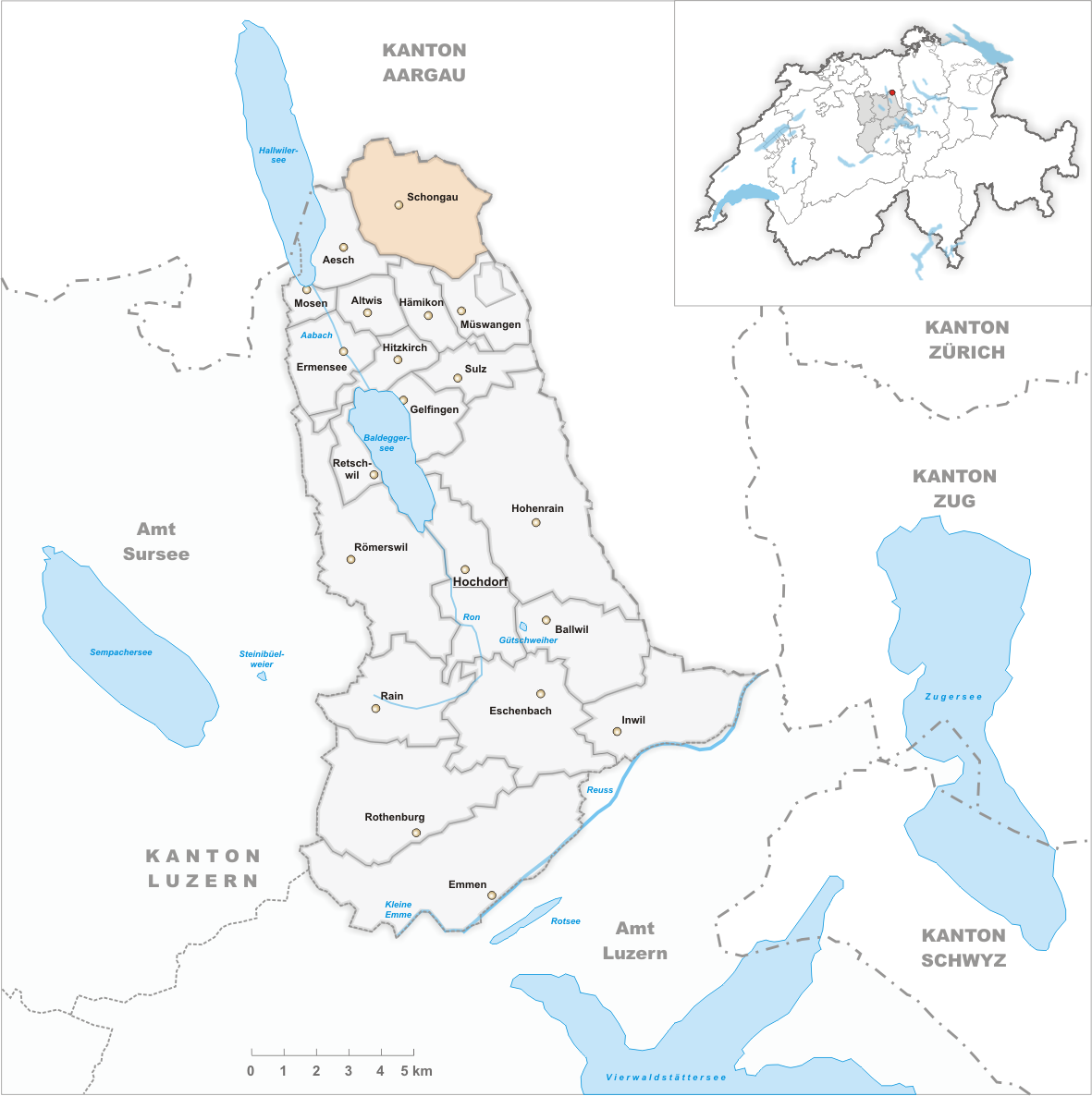 Municipality Schongau